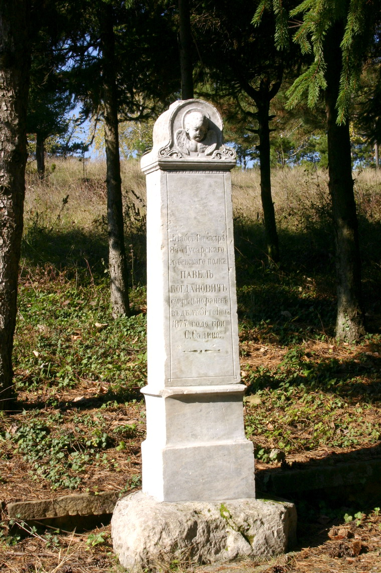 The Russian monument in village Zaraevo, Popovo municipaliry, Bulgaria